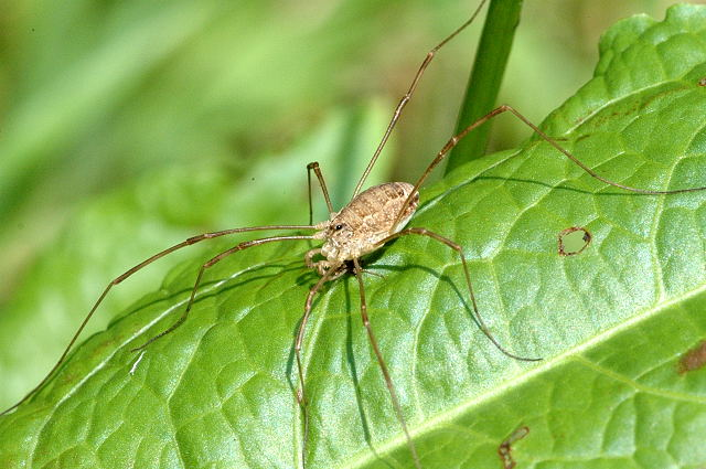 Note: This is not Paroligolophus agrestis as the filename suggests, but rather Rilaena triangularis - from Commanster, Belgian High Ardennes .